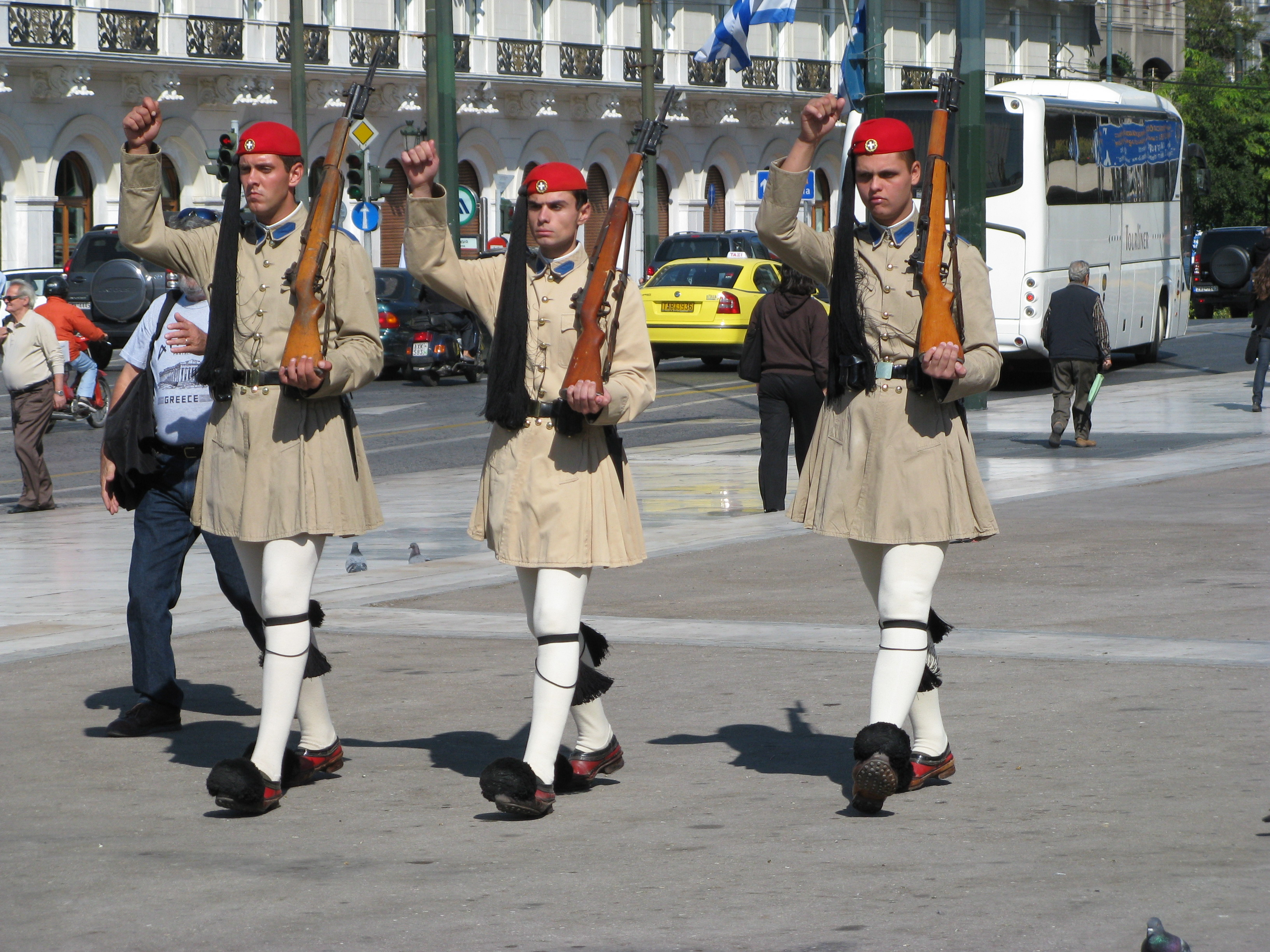 Changing of the Guard at the Tomb of the Unknown Soldier in front of the Greek Parliament building.